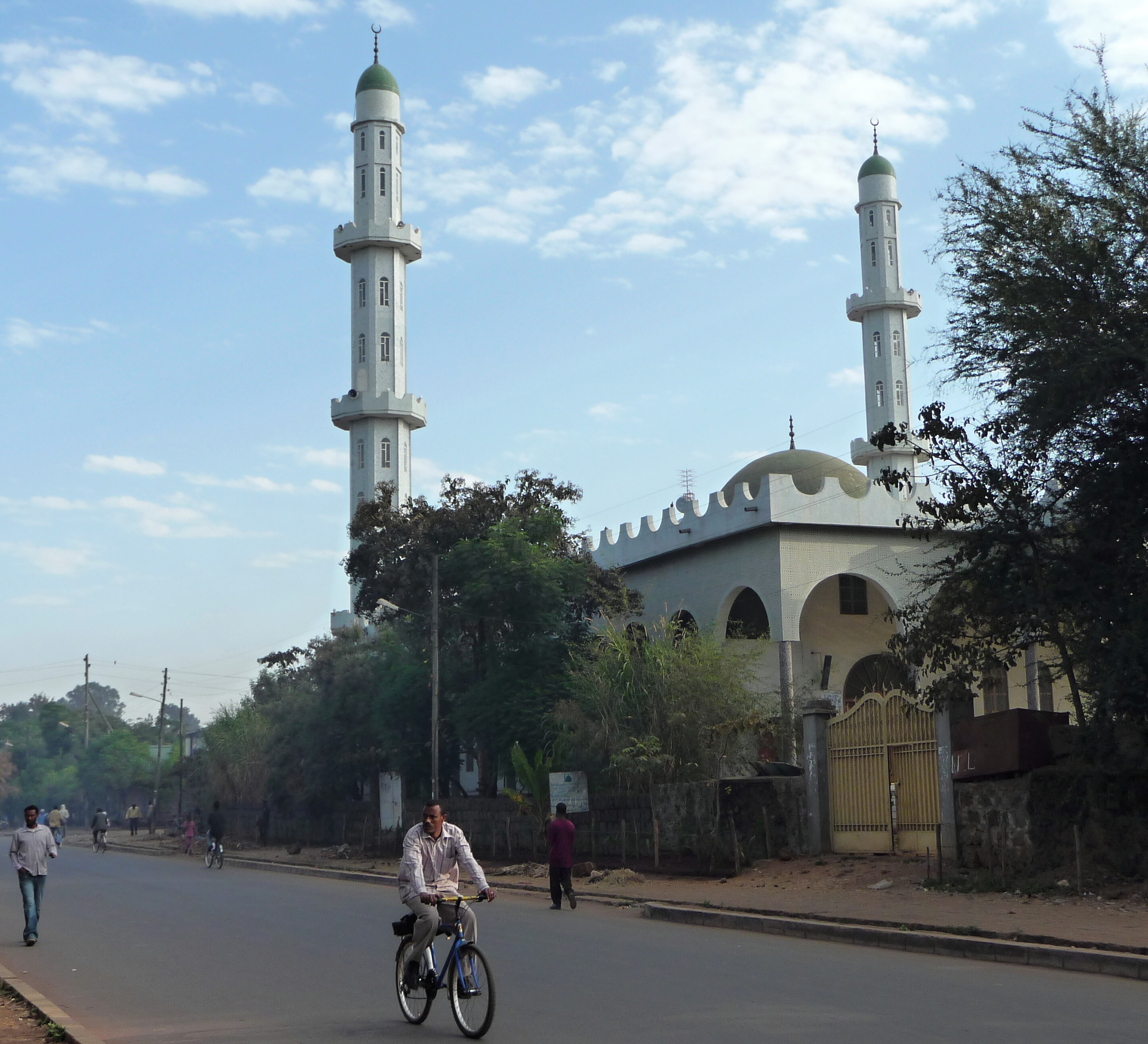 Mosque in Bahir Dar (Amhara Region, Ethiopia).